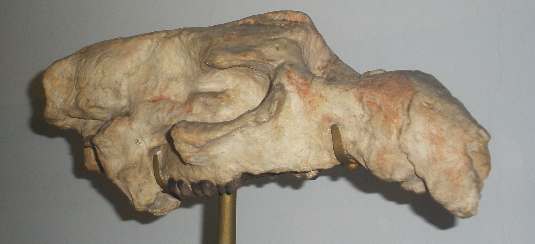 Fossil of Prototherium (Halitherium) veronense, an extinct sirenian